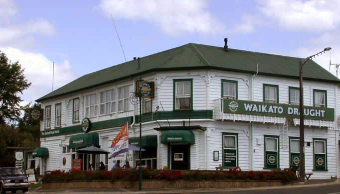 Pub in Tirau, Waikato Region, New Zealand